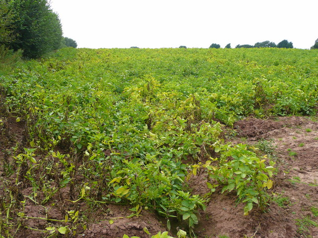 Potato field west of Biddlestone The crop will shortly be harvested. It is likely that the haulm (green parts) will be chemically dessicated in order that the crop can be lifted easily with less chance of fungal diseases in store. This land used to be orchards.